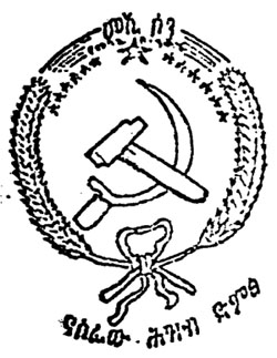 Logo of the All-Ethiopia Socialist Movement (MEISON) circa 1977